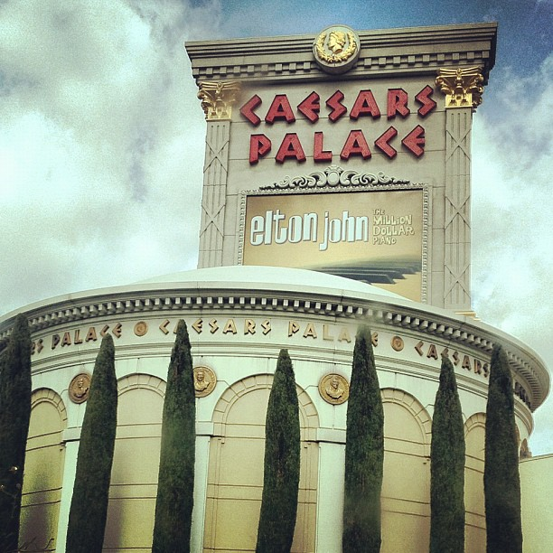 Caesars Palace Las Vegas Nevada 8286720132 o